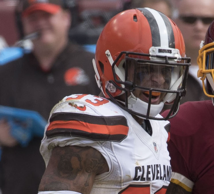 Cleveland Browns safety, Jordan Poyer, playing against the Washington Redskins on October 2, 2016